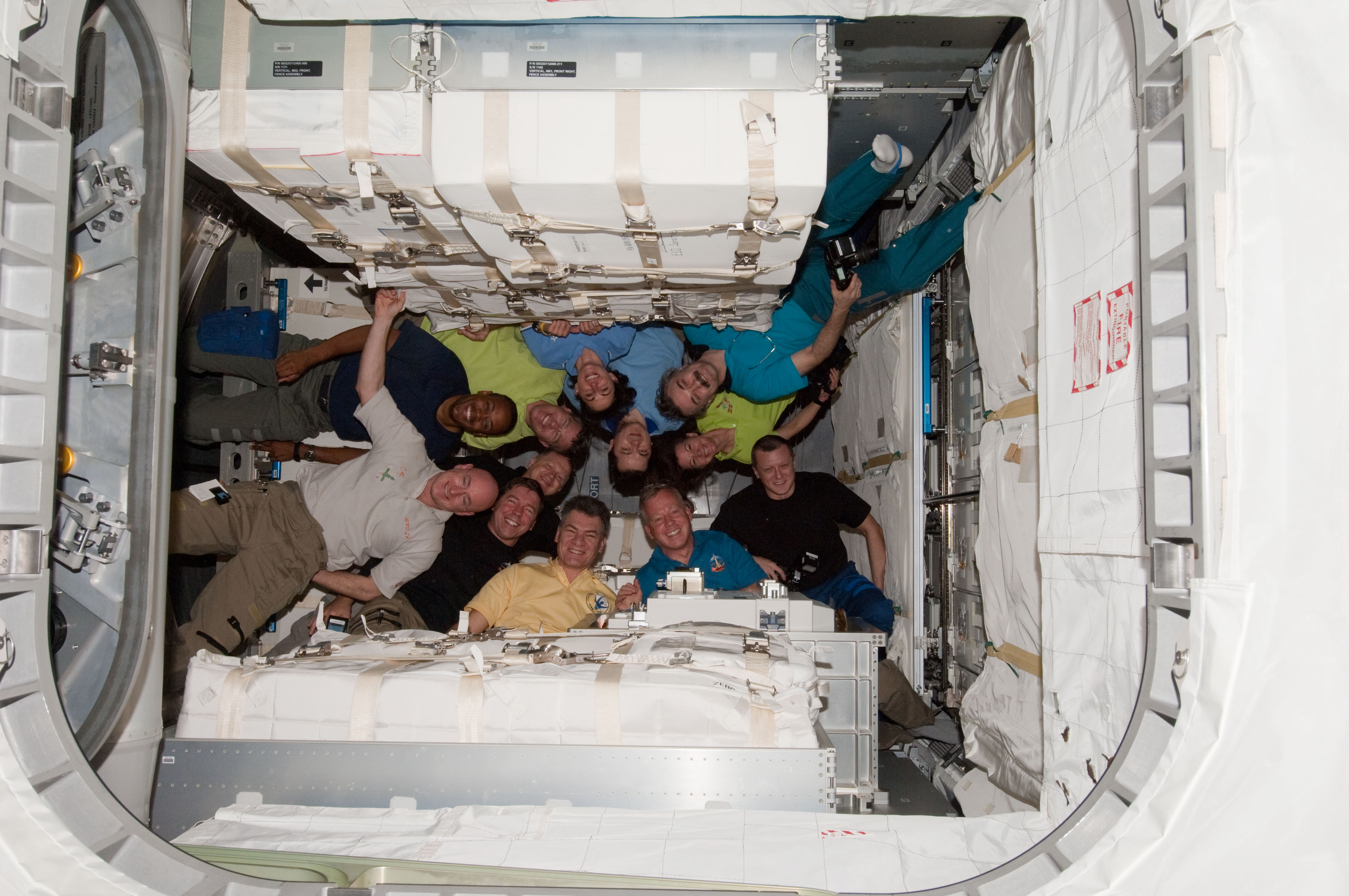 Expedition 26 and STS-133 crew members pose for a photo in the newly-attached Permanent Multipurpose Module (PMM) of the International Space Station while space shuttle Discovery remains docked with the station. Pictured (clockwise from the lower left) are NASA astronauts Scott Kelly, Expedition 26 commander; Alvin Drew, Steve Bowen, Nicole Stott, all STS-133 mission specialists; Russian cosmonauts Oleg Skripochka and Alexander Kaleri, NASA astronaut Cady Coleman, Russian cosmonaut Dmitry Kondratyev, all Expedition 26 flight engineers; NASA astronaut Steve Lindsey, STS-133 commander; European Space Agency astronaut Paolo Nespoli, Expedition 26 flight engineer; NASA astronauts Eric Boe, STS-133 pilot; and Michael Barratt, STS-133 mission specialist.